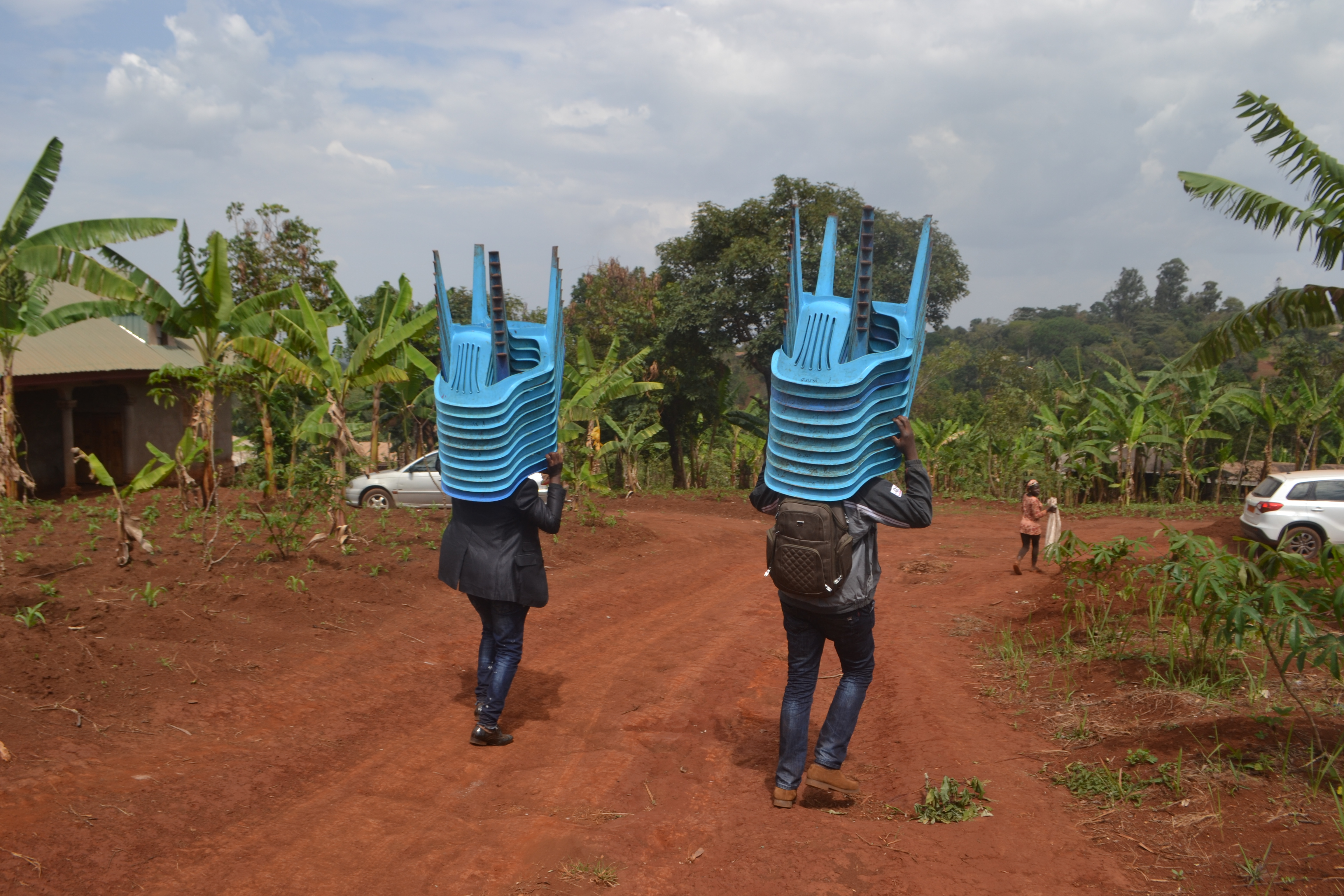 This is an image with the theme "Africa on the Move or Transport" from: Cameroon